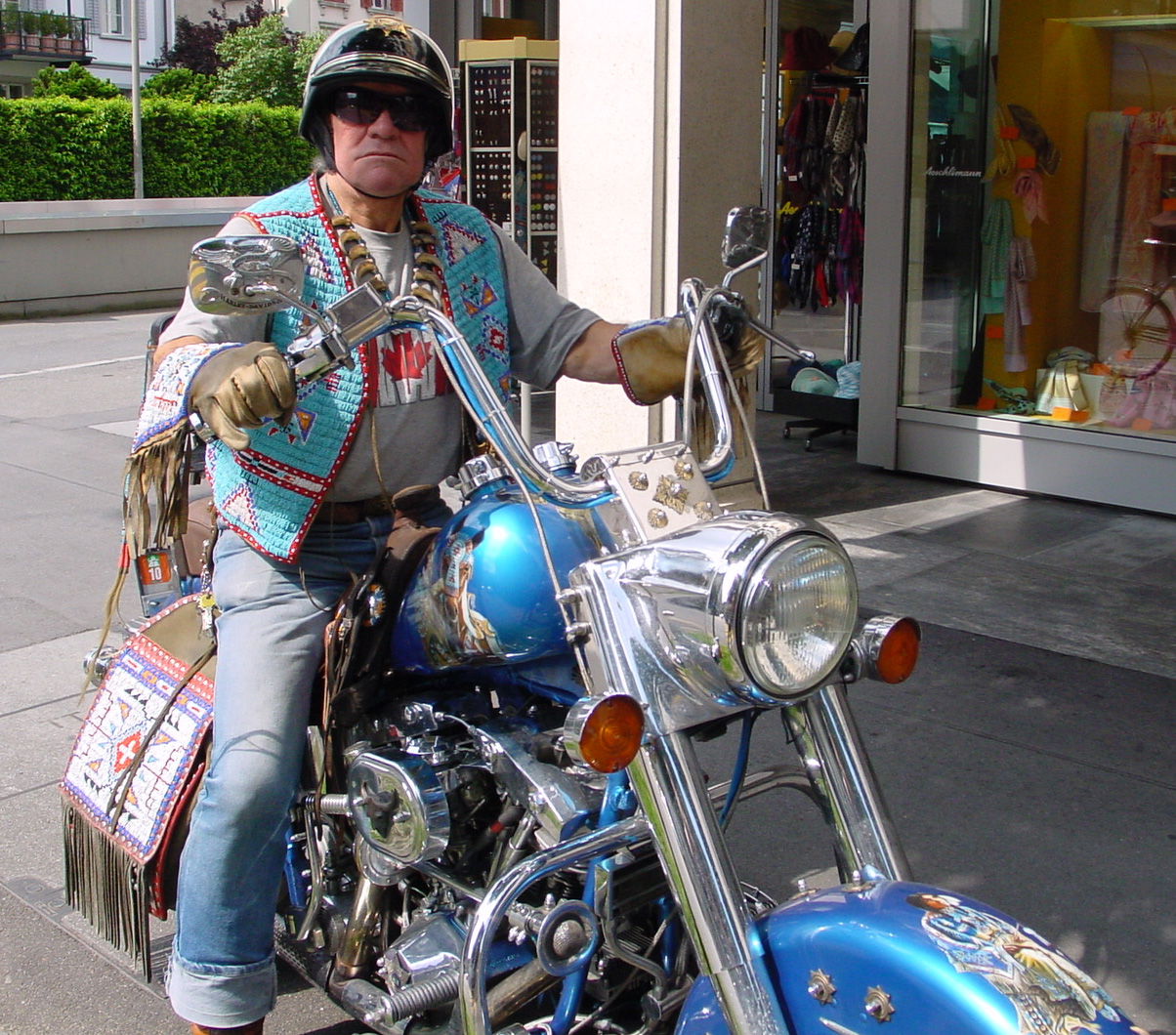 Angy Burri on his Motorbike